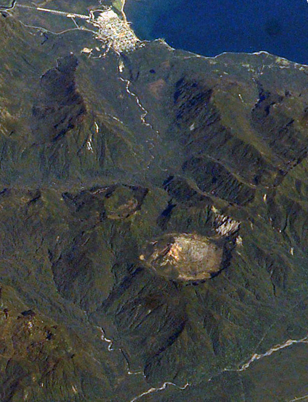 Michinmahuida and Chaitén volcanoes, Chile.